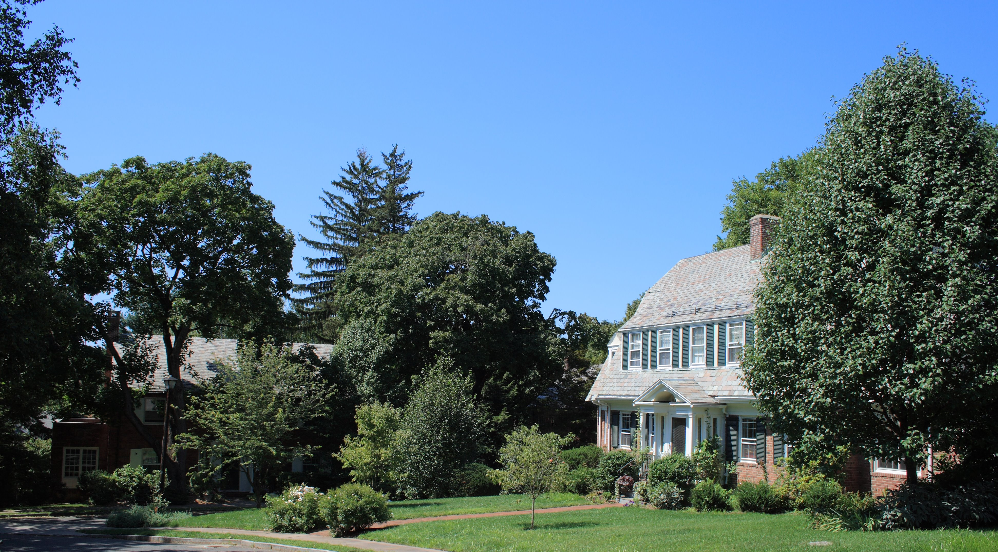 The West Hill Historic District, a Registered Historic Place in West Hartford, Connecticut